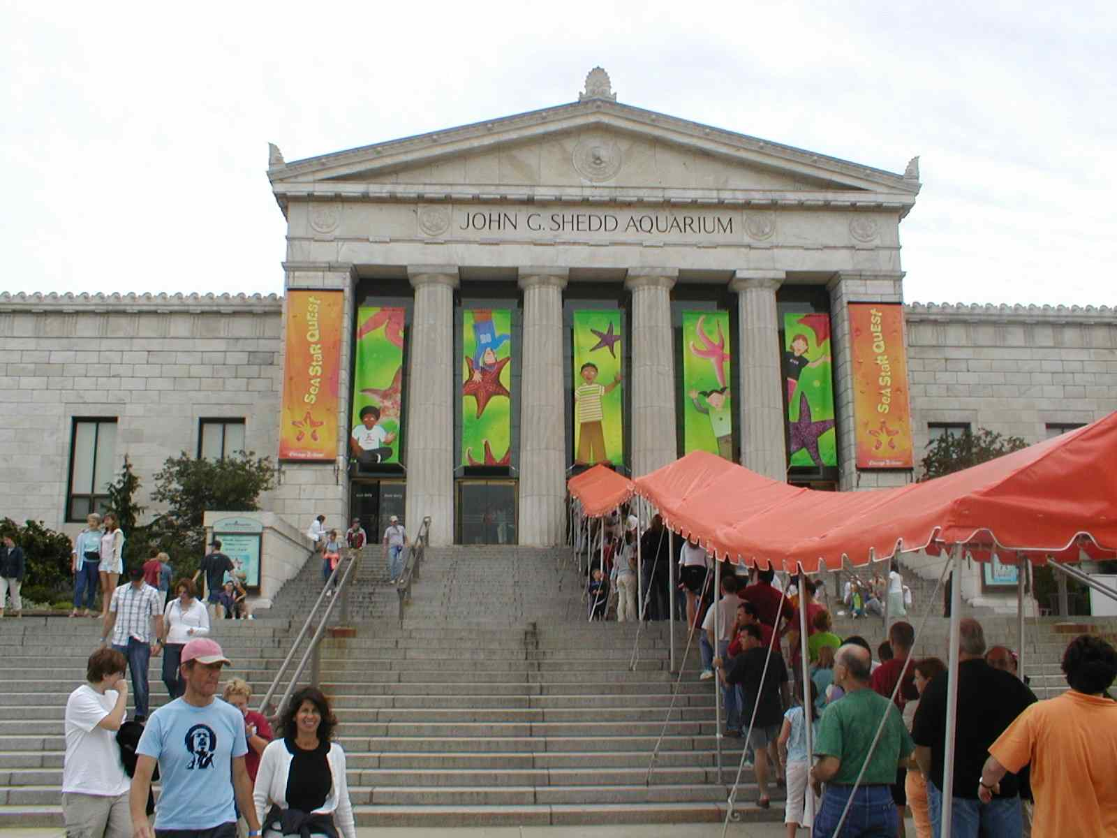 The John G. Shedd Aquarium in Chicago.